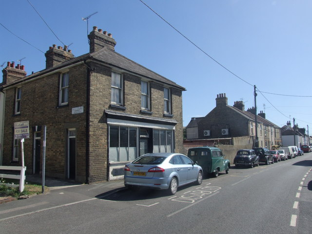 High Street, Wouldham